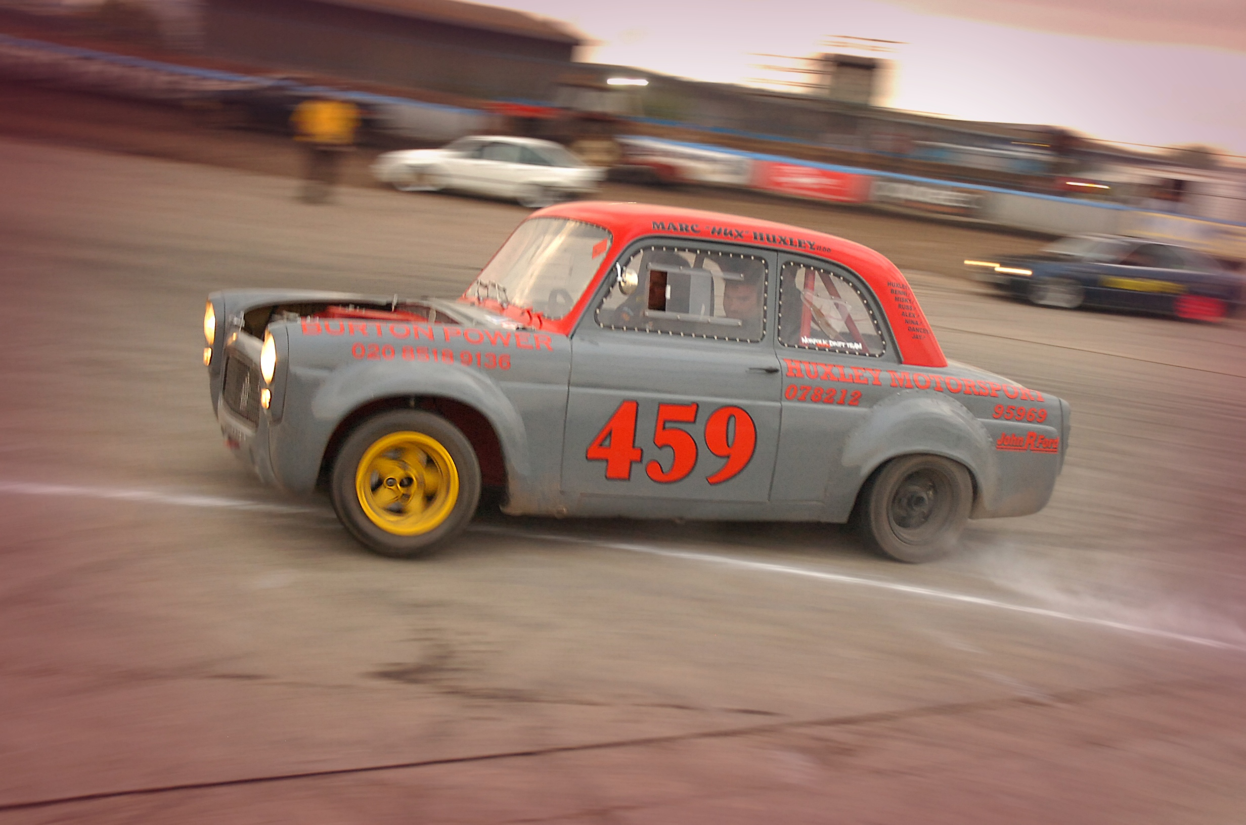 Malcolm 'Fozzy' Foskett in his Cosworth-engined Ford Popular, Norfolk Arena Drift Team, 2014-07-05.